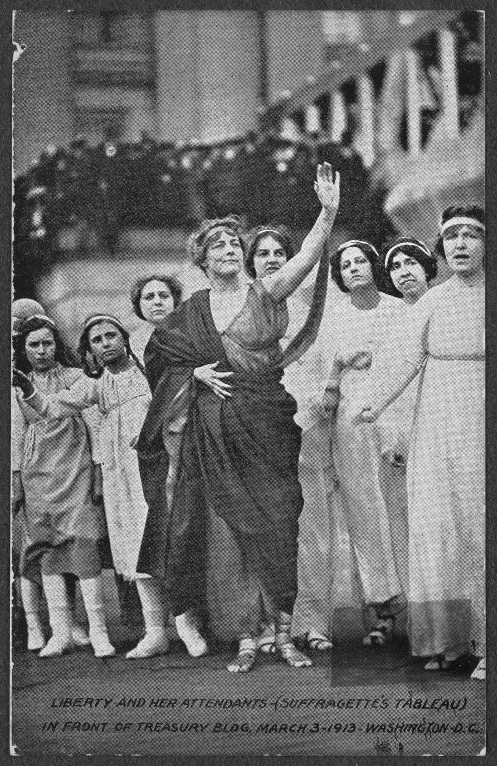 Summary: Photograph of women and girls in Greek costume in suffrage tableau in front of the Treasury Building, Washington, D.C. Central figure is dressed in toga as Liberty.